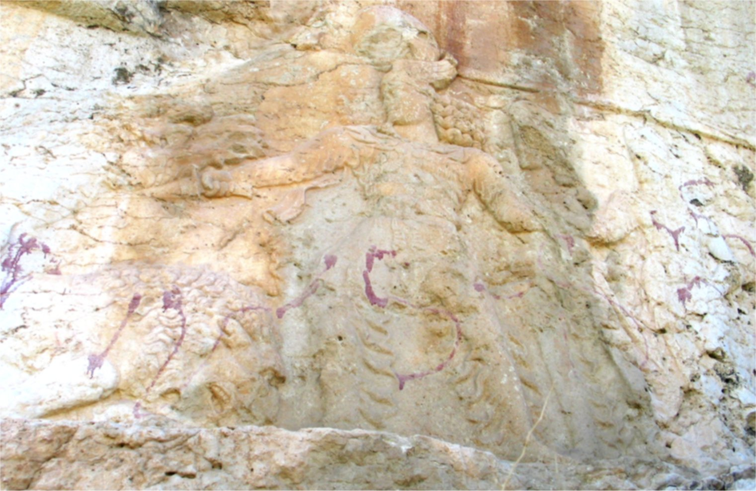 Sasanian king Bahram II's rock relief at Sar Mashhad. King fighting 2 lions and protecting his wife and a courtier. Iran, Province of Fars.